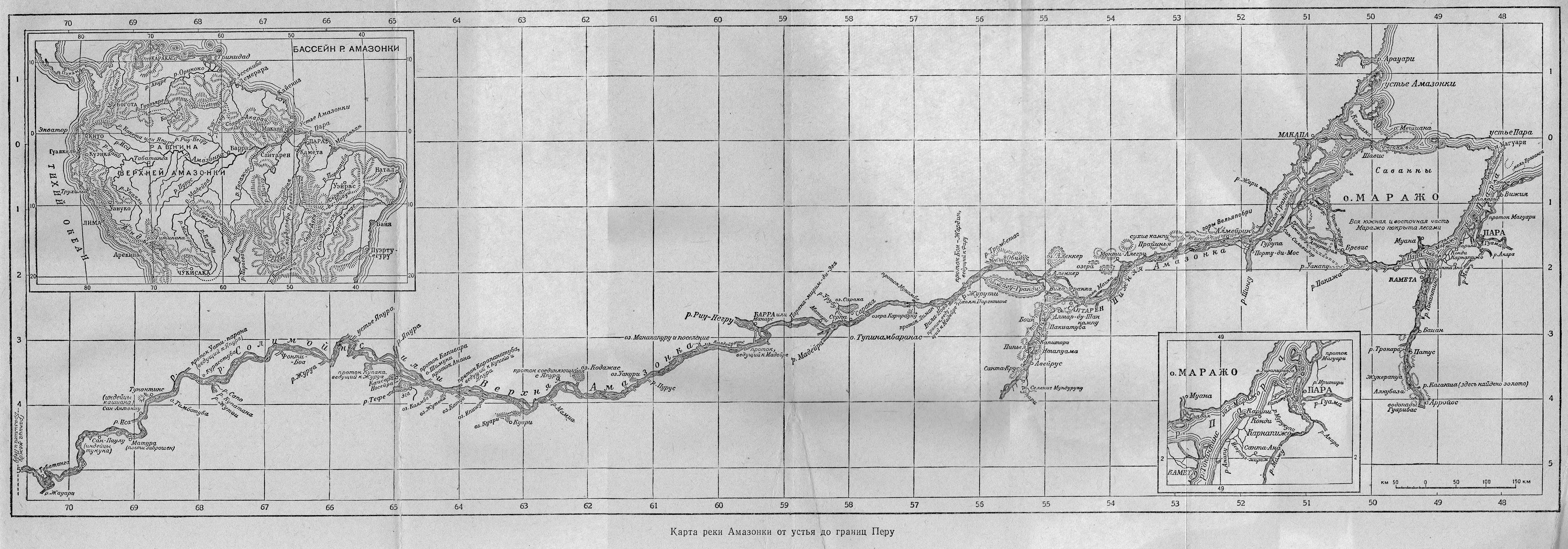 The river Amazons